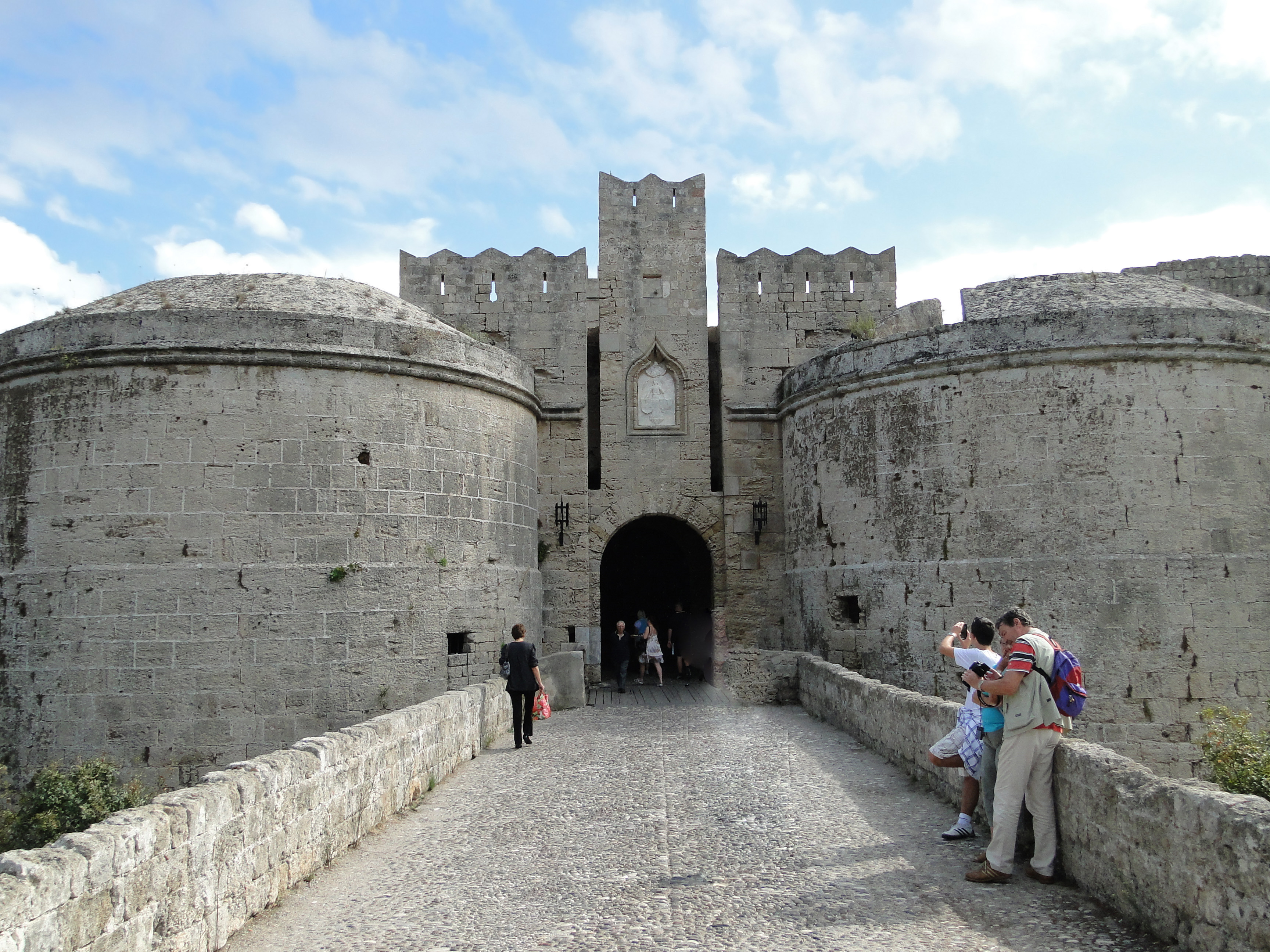 Gate d'Amboise in the Old town of Rhodes, Greece